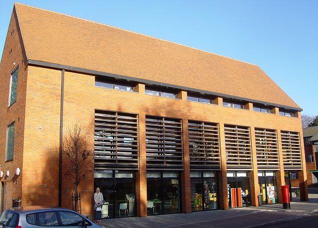 Alton library Completed in September 2004 at a cost of £1.274m.